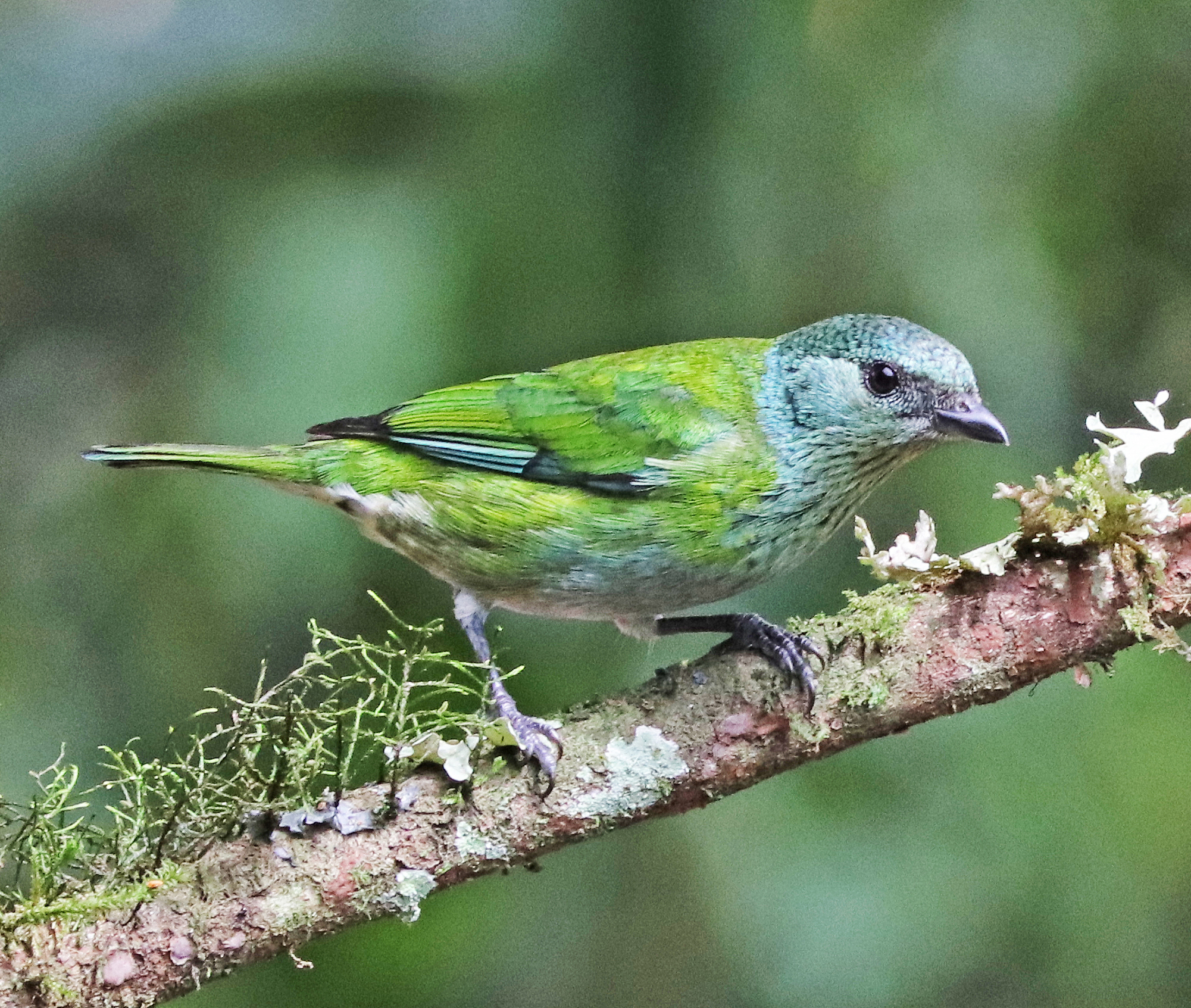 Female Black-capped Tanager resting on a branch at San Jorge Eco-lodge Tandayapa, Ecuador